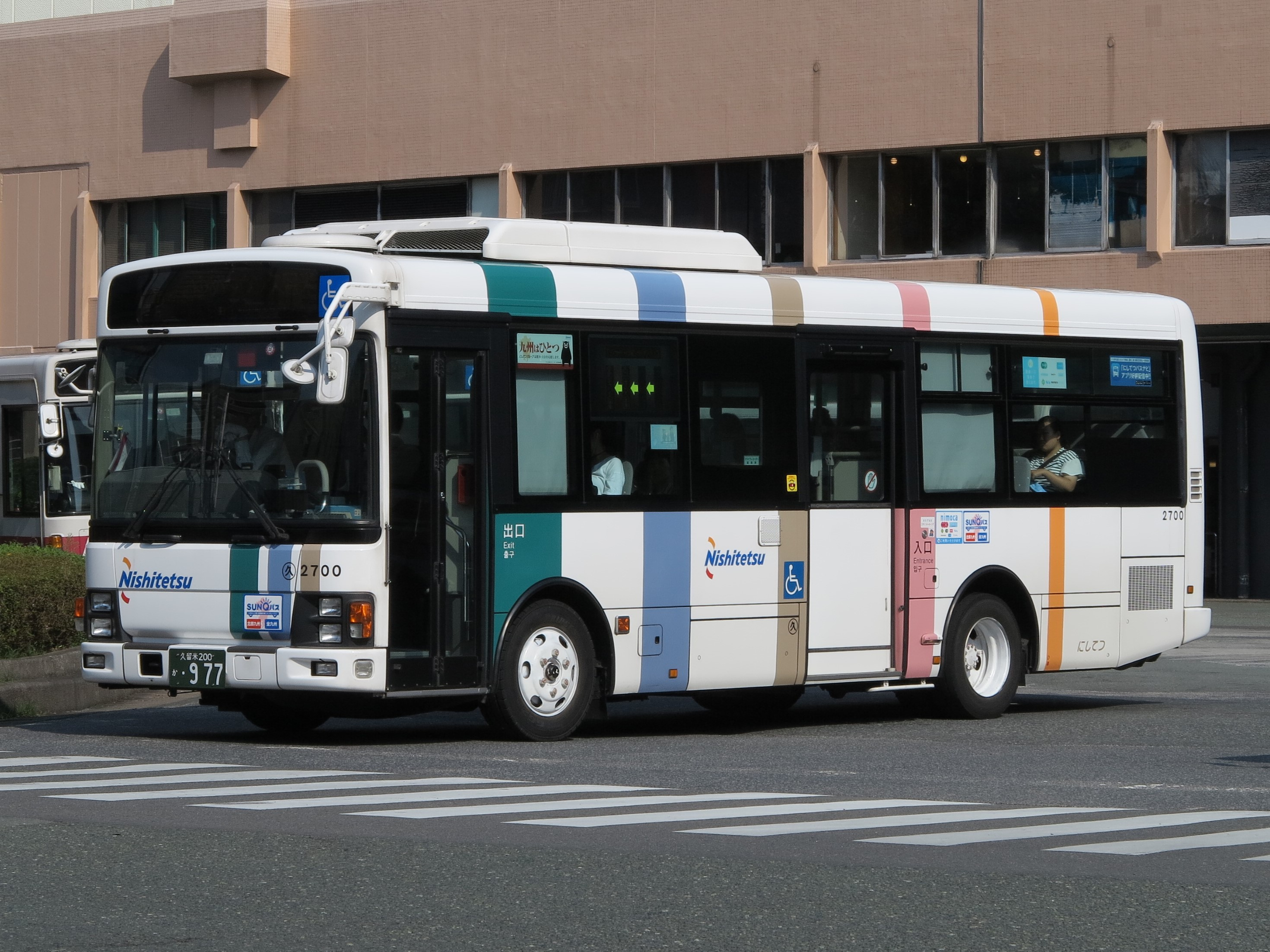 Nishitetsu bus at Nishitetsu Kurume station